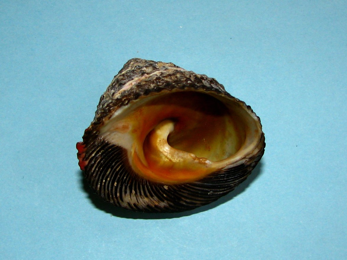 Queen tegula Trochidae (Top Shell family) South-Central, California, USA NOTE: I have not collected live shells since the mid-1970's. I believe that the animal itself is much more valuable alive than destroyed for its shell. It is for this reason that I will only collect beach/forest shells from deceased specimens.